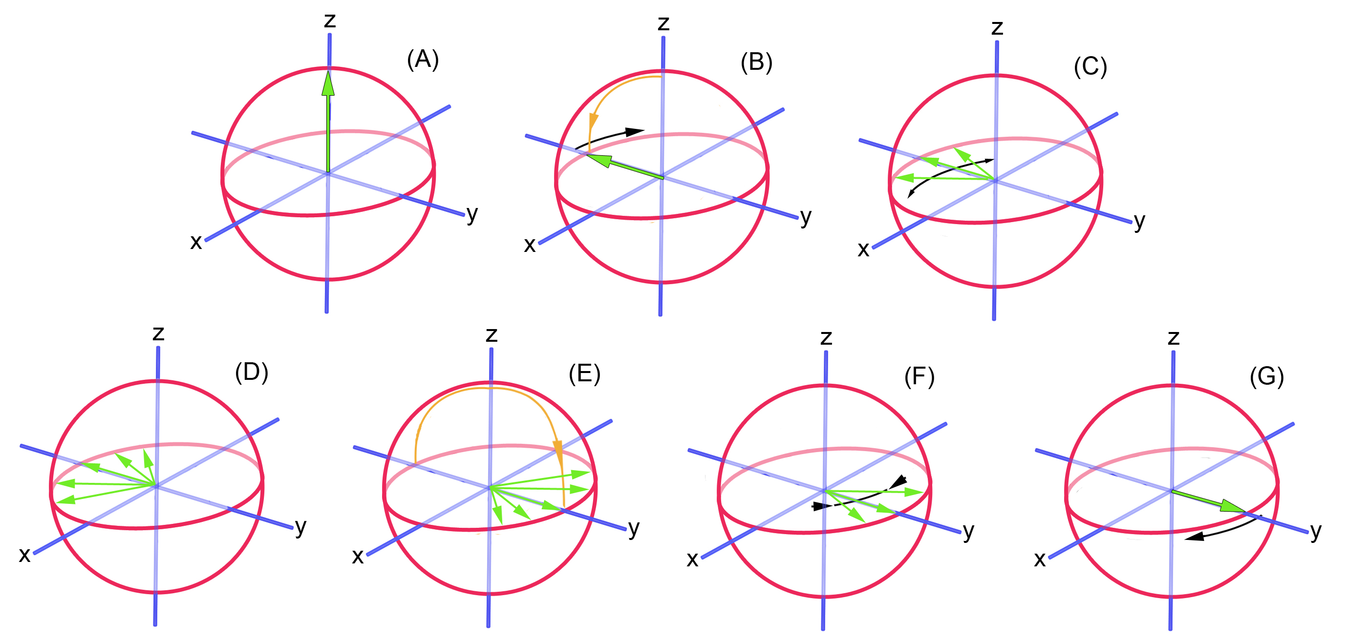 This drawing was made by Aaron Filler, MD, PhD who is currently editing the spin echo article. It uses some of the diagrammatic concepts from the original 1950 article by Erwin Hahn but is not directly redrawn from any drawing in that article. It is intended to have a GNU Free Documentation License and be available for general use with appropriate attribution to Dr. Filler.